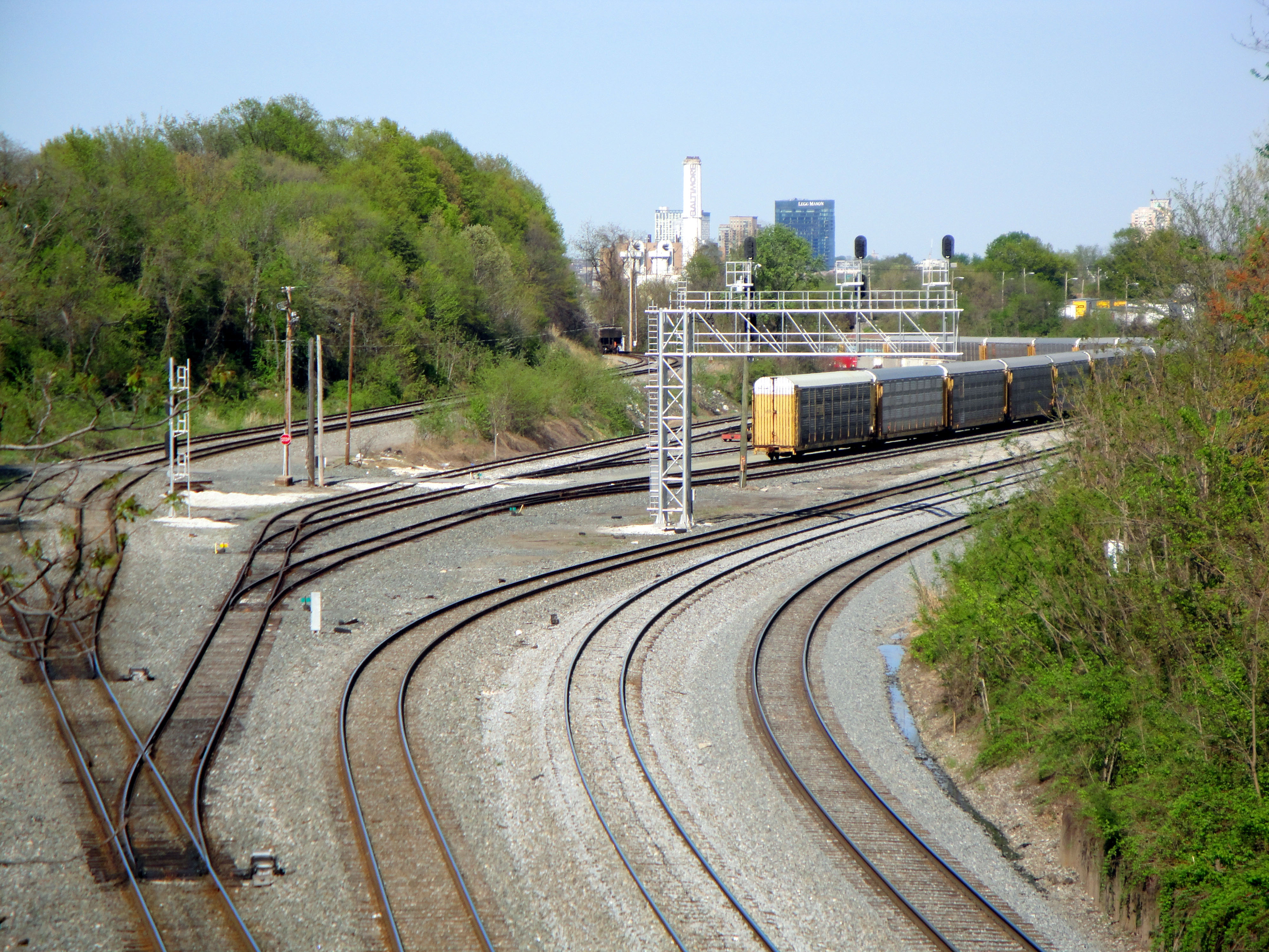 View of Mount Winans Yard in Baltimore, Maryland. Located on the Baltimore Terminal Subdivision of CSX Transportation. The main line is the set of three tracks on the right. The set of two tracks on the extreme left is the present Mount Clare Branch, which was the original B&O main line built 1828-1830.